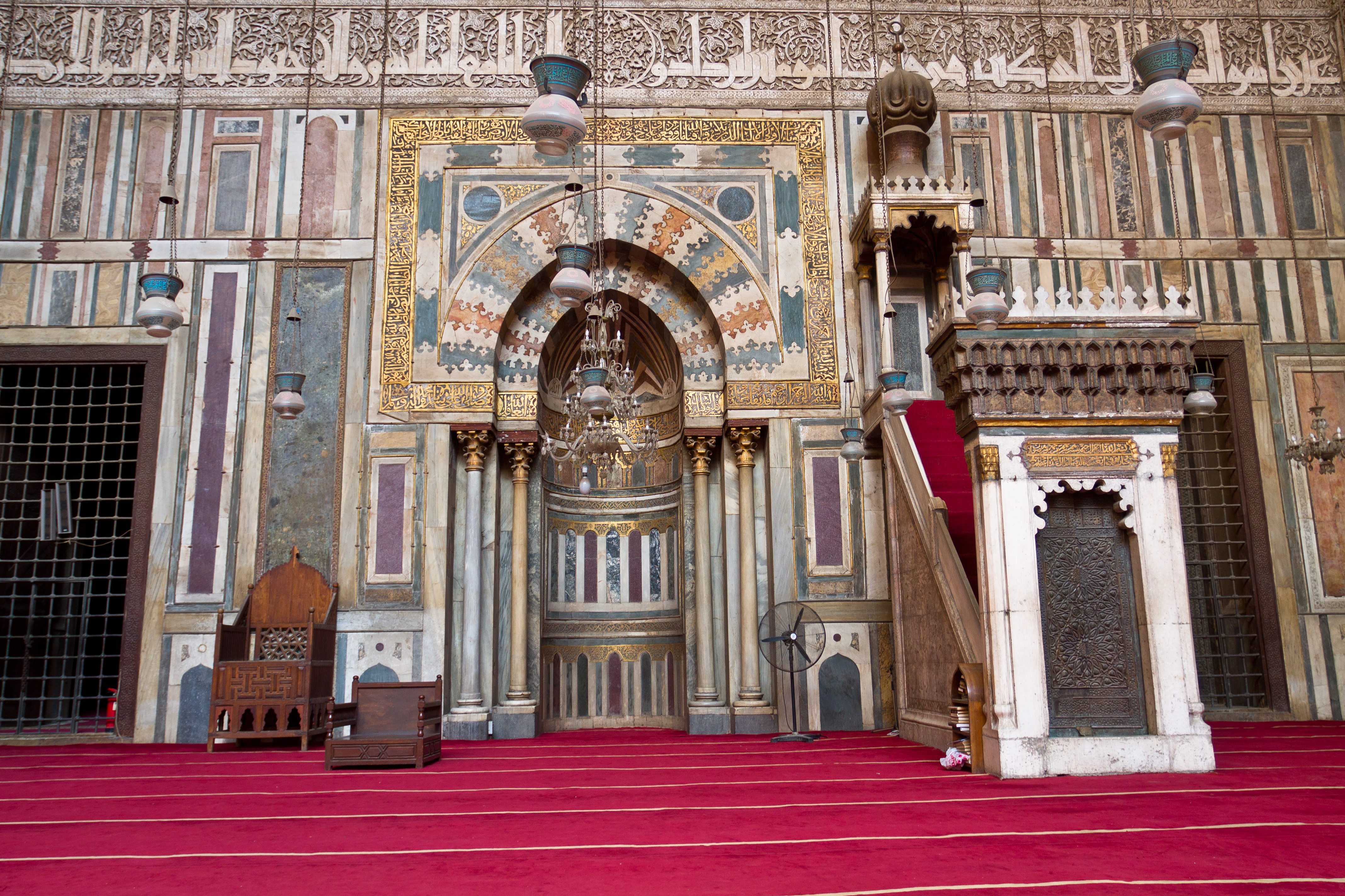 The Mosque-Madrassa of Sultan Hassan is a massive Mamluk era mosque and madrassa located near the Citadel in Cairo. Its construction began 757 AH/1356 CE with work ending three years later "without even a single day of idleness".[1] At the time of construction the mosque was considered remarkable for its fantastic size and innovative architectural components. Commissioned by a sultan of a short and relatively unimpressive profile, al-Maqrizi noted that within the mosque were several "wonders of construction".[1] The mosque was, for example, designed to include schools for all four of the Sunni schools of thought: Shafi'i, Maliki, Hanafi and Hanbali.